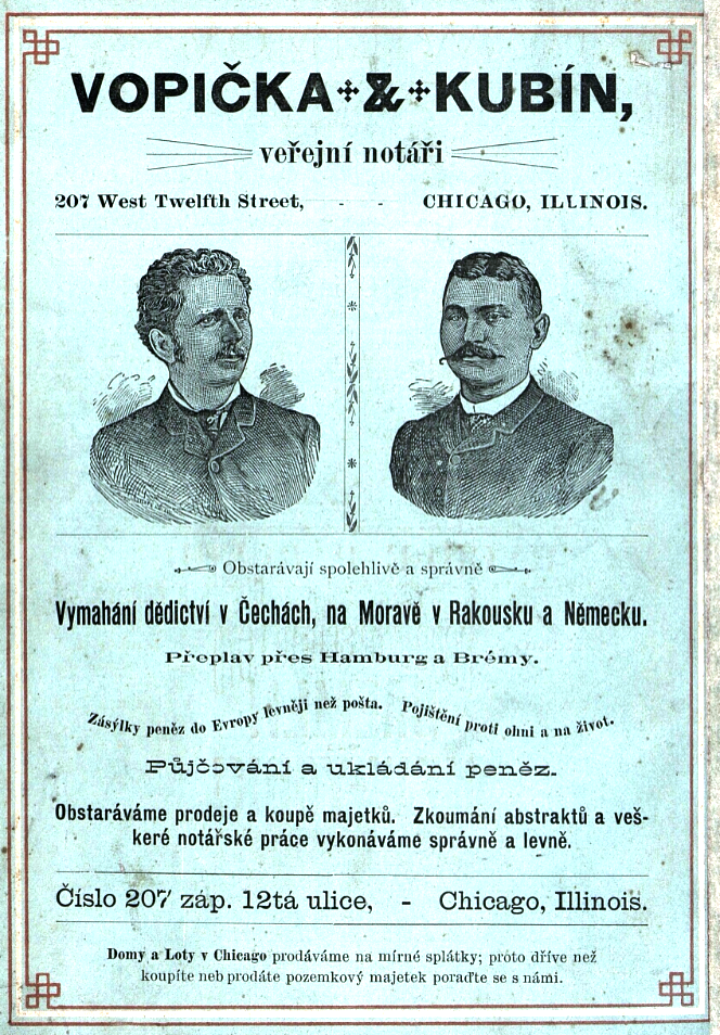 Advertisement of notaries Vopička and Kubín in a Czech-language newspaper published in Chicago